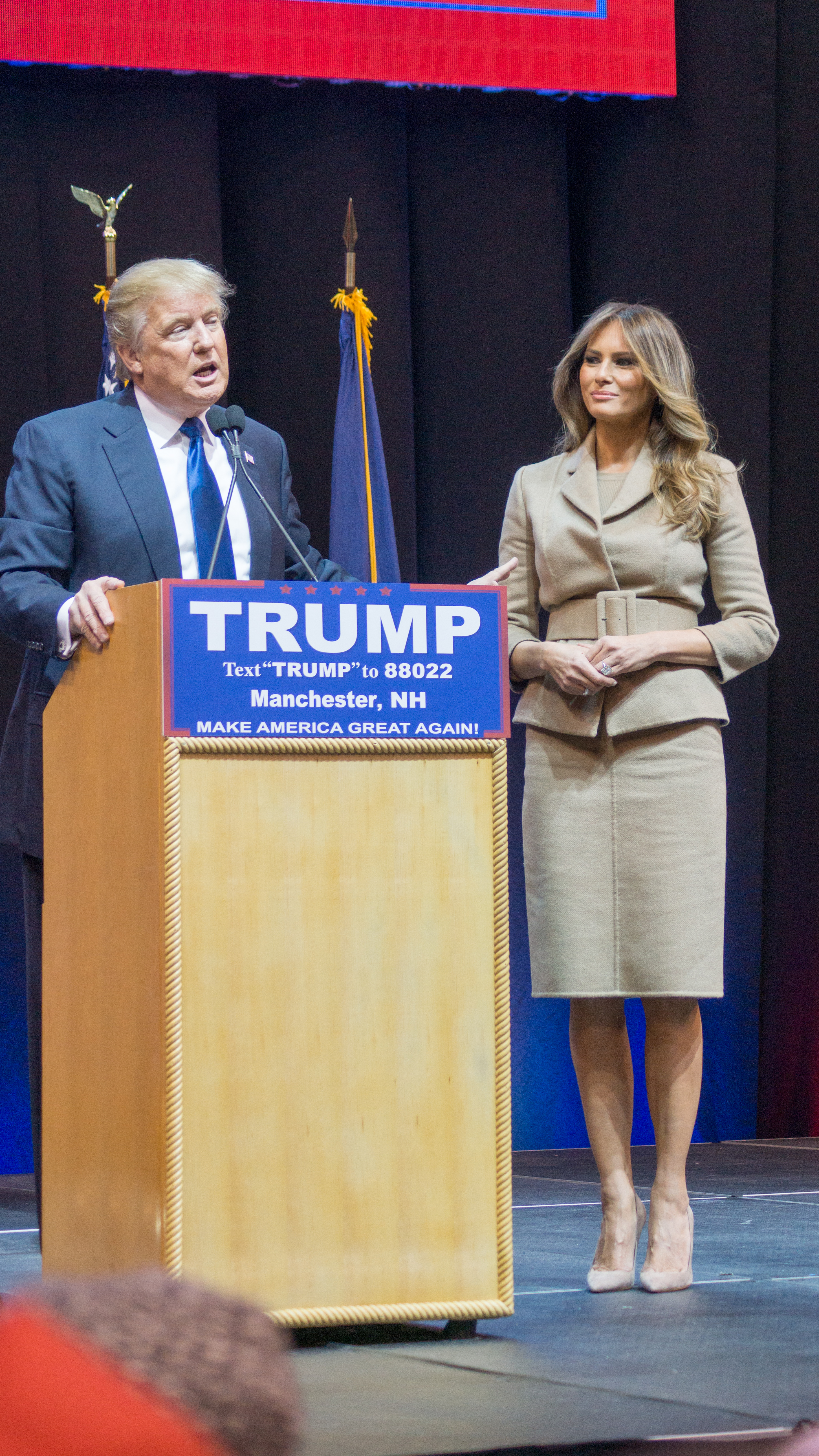 Vertical image of billionaire businessman and politician Donald Trump (left) and wife Melania Knauss-Trump (right)